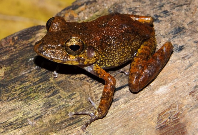 Pristimantis gaigei